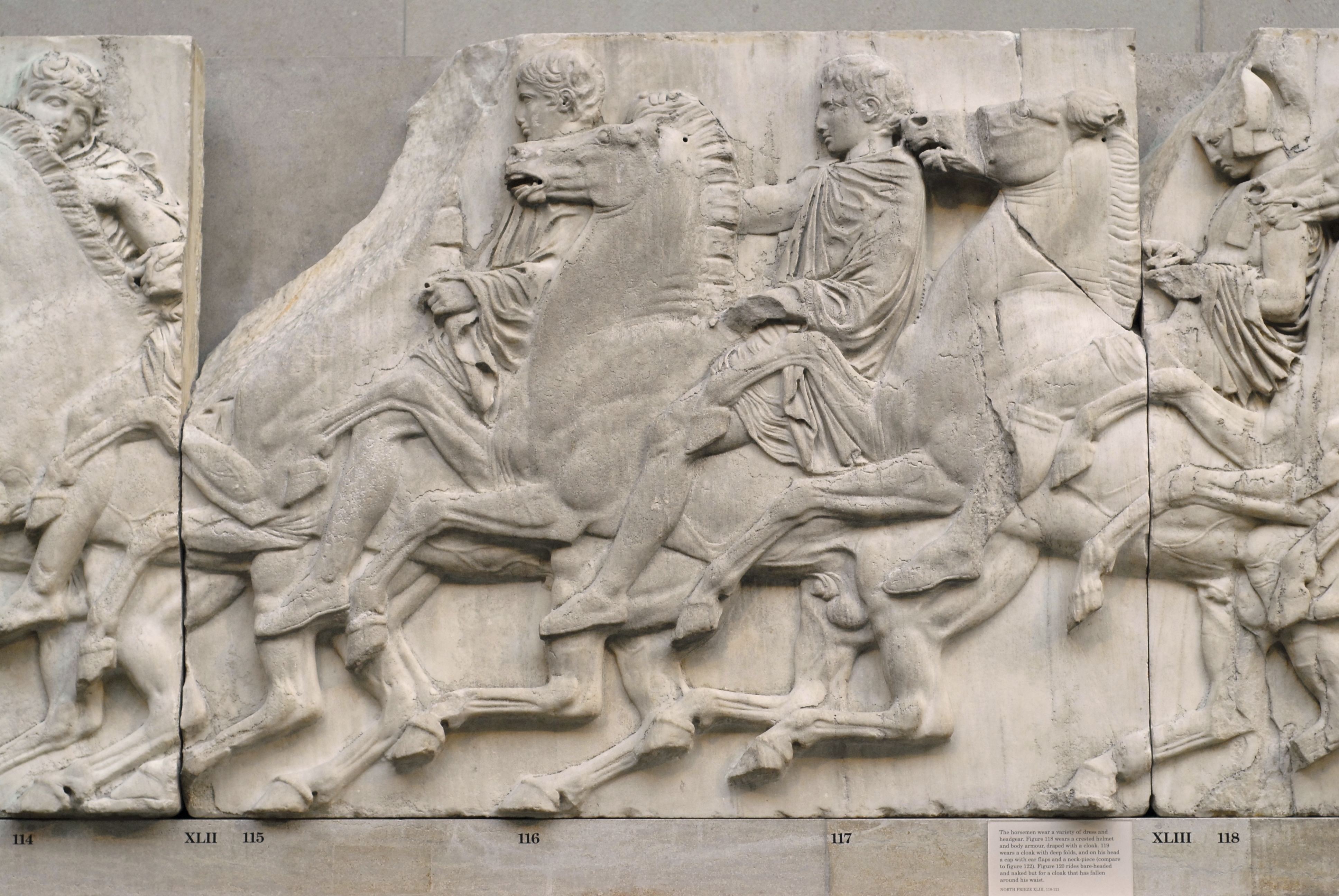 Cavalcade. Block XLII from the north frieze of the Parthenon, ca. 447–433 BC.